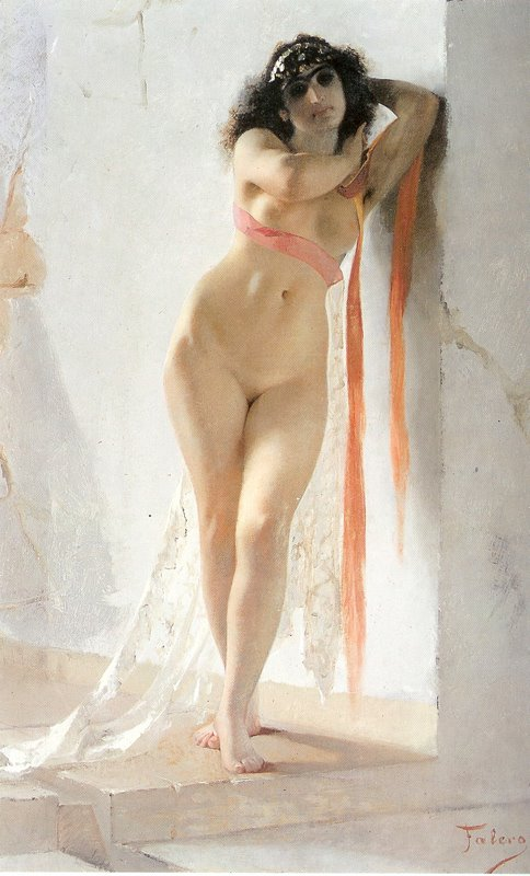 Oil on canvas by Luis Ricardo Falero representing a naked oriental woman. signed b.r.: Falero